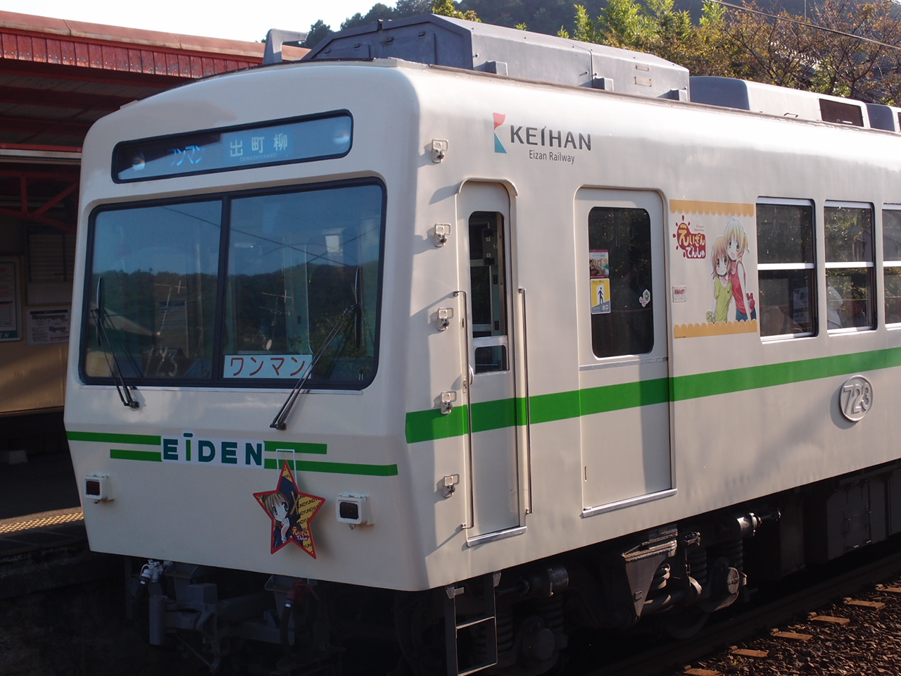 Deo723 "Hidamari" of Eizan Electric Railway in Kyoto, Japan.